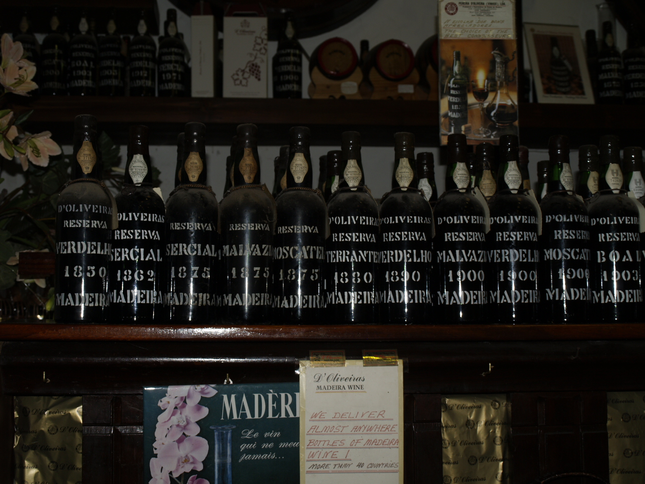 Producer of madeira wine - D´Oliveiras.